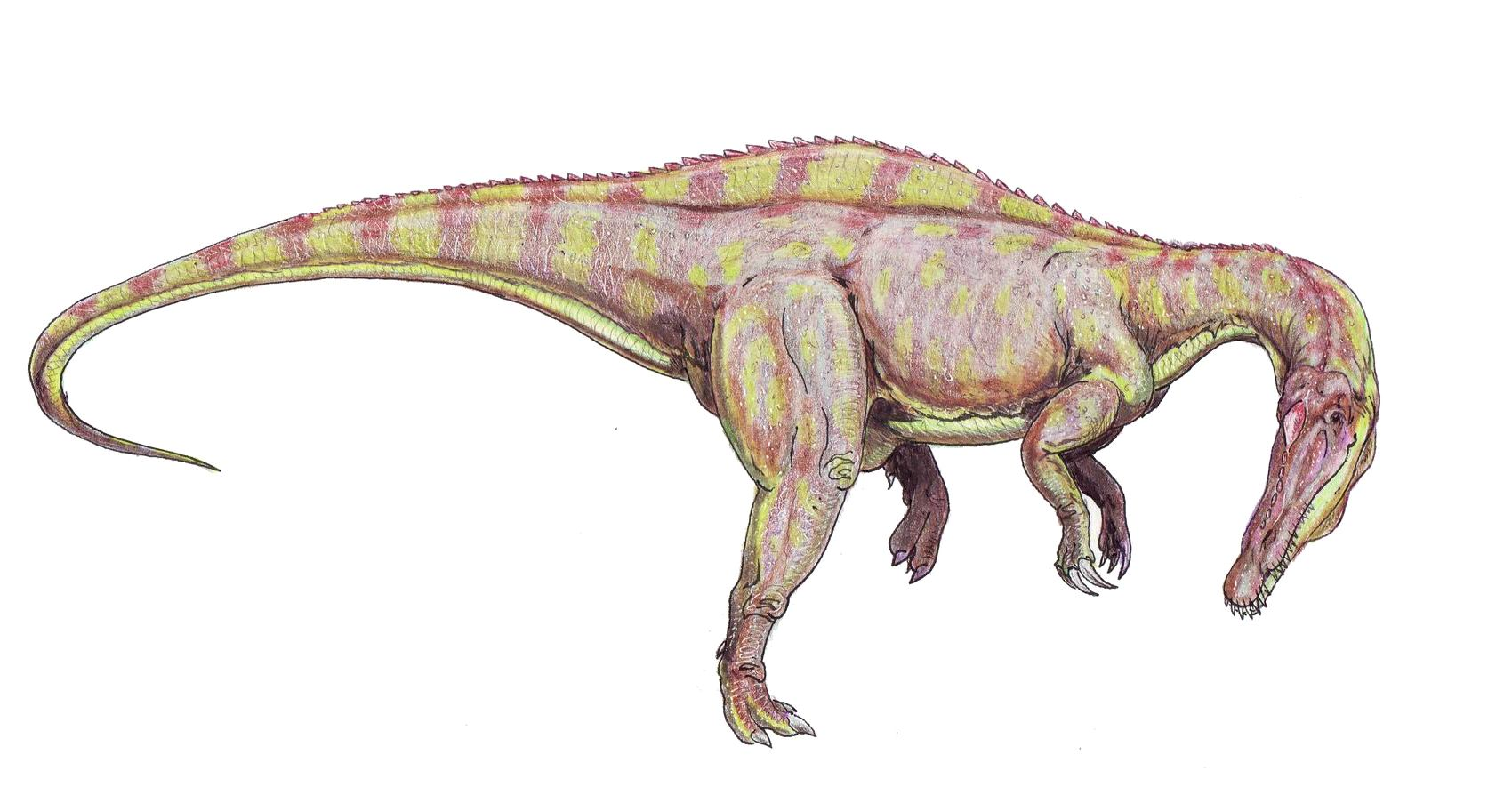 Suchomimus tenerensis was a large spinosaurid dinosaur from Africa in the middle Cretaceous period, 120 to 110 million years ago.